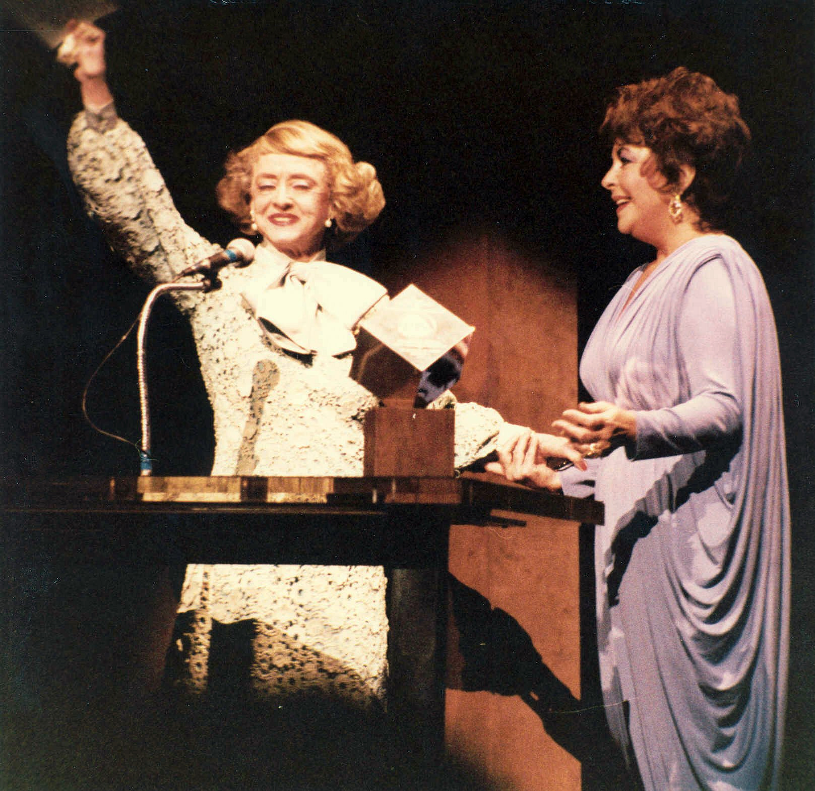 Bette Davis and Elizabeth Taylor, picture taken November 8, 1981 at a Filmex "An Evening With Elizabeth Taylor"